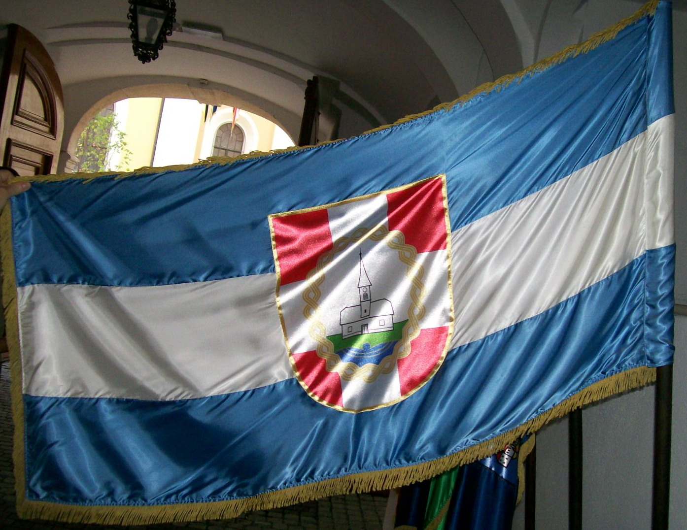 Flag of Municipality of Petrijanec, Varaždin County, Croatia ( reverse side of the flag)